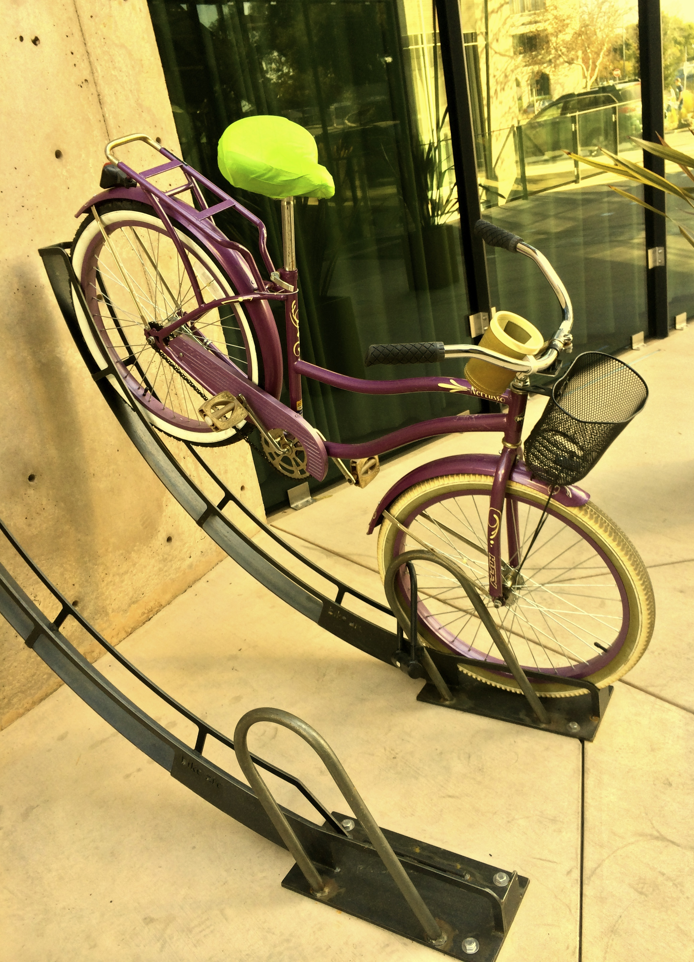 This image depicts Bike Arc's second iteration of its standard bicycle rack--known as the Rack Arc--and the model shown is current as of May 2014.